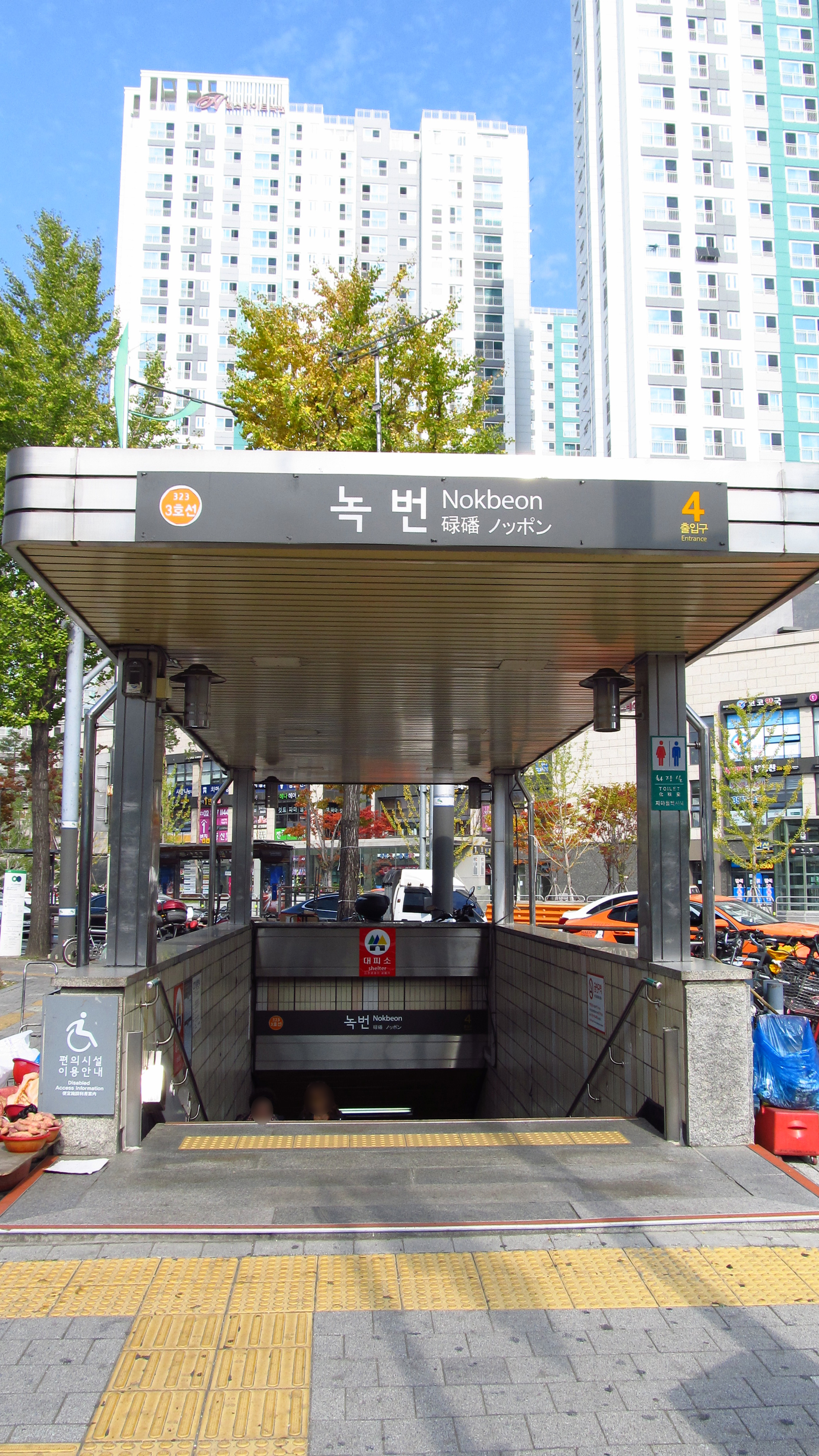 The no.4 entrance to Nokbeon Station on the Seoul Metro Line 3 in Eunpyeong-gu, Seoul, Republic of Korea(South Korea)